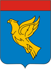 Menzelinsk rayon (Tatarstan), coat of arms